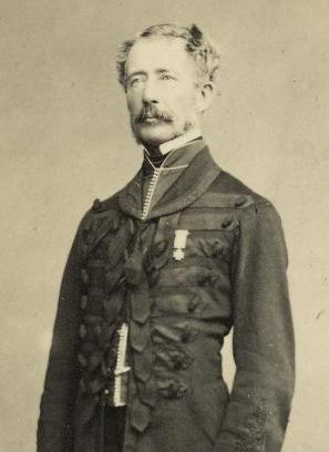 Standing portrait of Thomas Rawlings Mould in military uniform. c. 1870